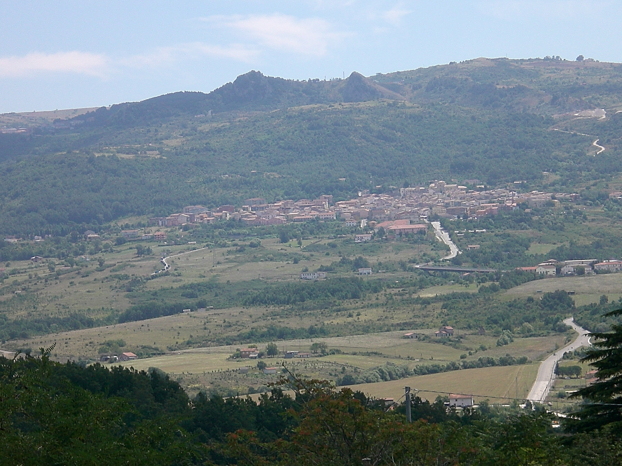 View of Sant'Andrea di Conza.